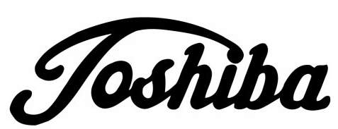 In 1950, Tokyo Shibaura Denki was renamed to Toshiba. This logo was used from 1950 to 1969.